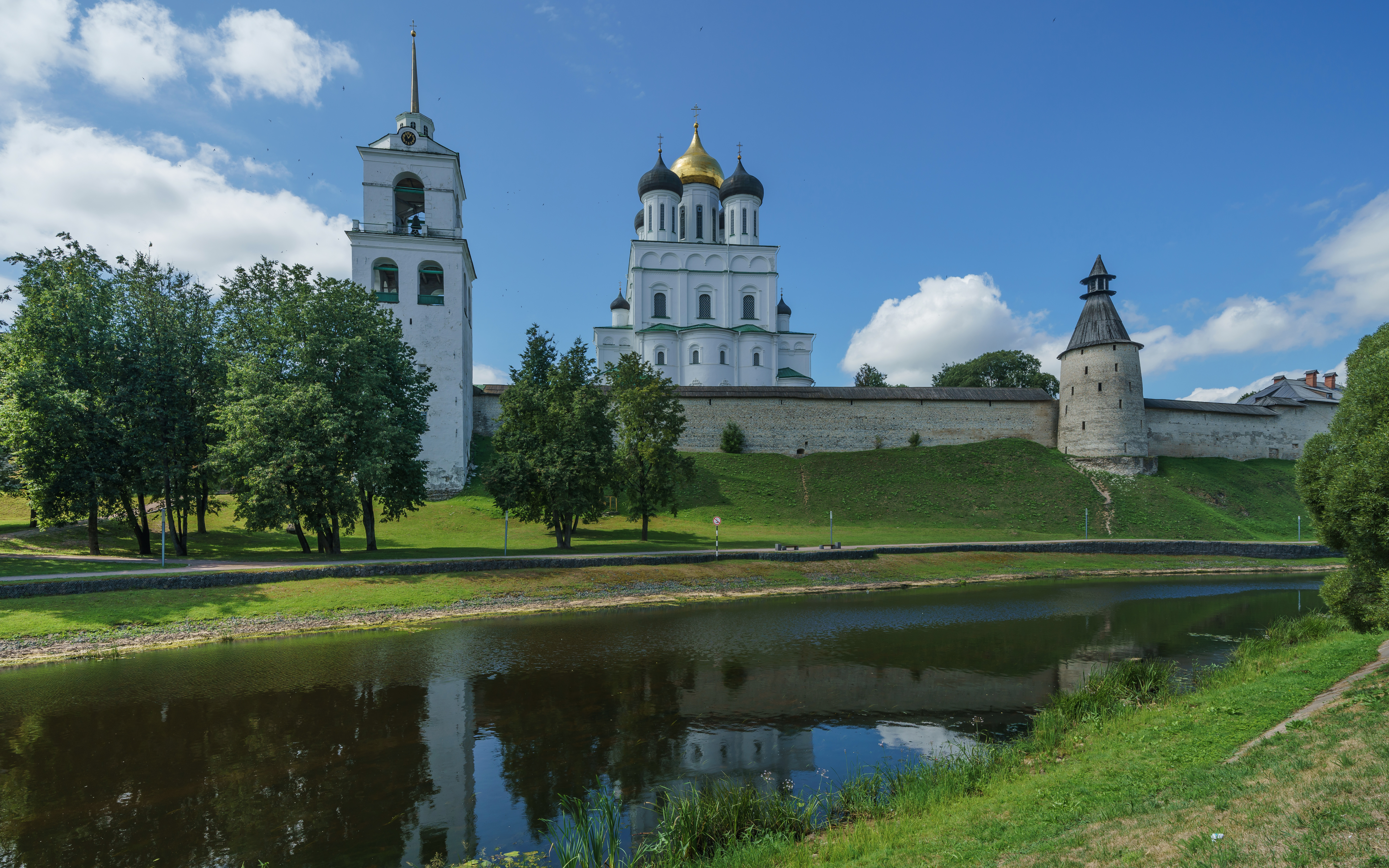 View of the Kremlin from Pskova riverside in Pskov, Russia